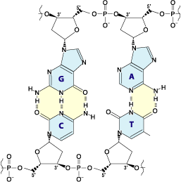 This image represents a chemical structure of DNA paring complementarily.